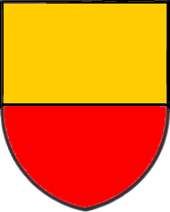 Coat of arms of the Stift Corvey